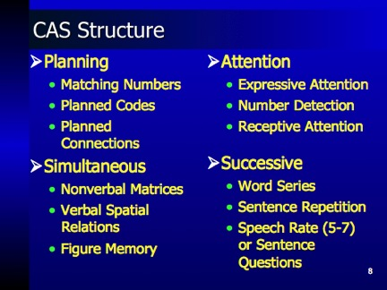 Sub-tests of the CAS